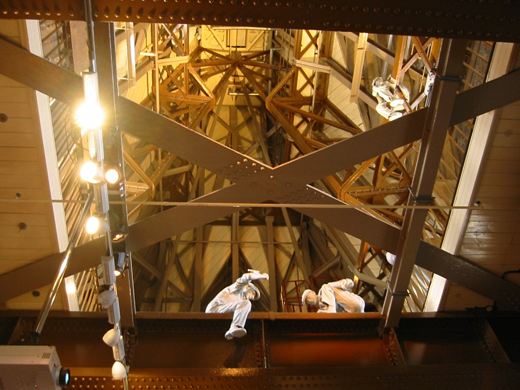 Inside Tower Bridge, London